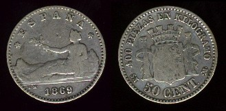 50 cents